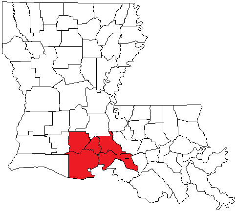 Map of redefined Lafayette LA MSA